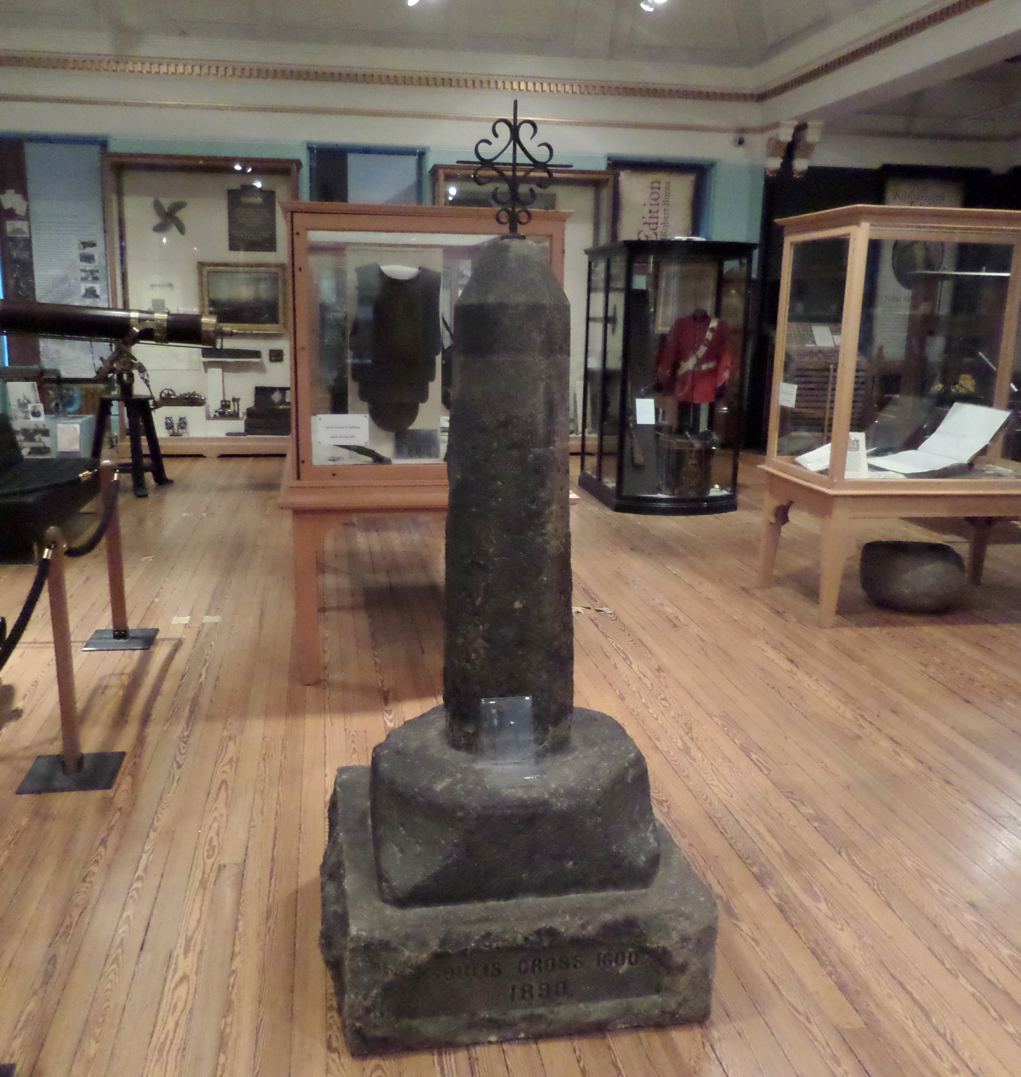 The original Soulis Cross, Kilmarnock, East Ayrshire, Scotland. Removed from Soulis St in 1825 and replaced with a new version in a slightly different location.